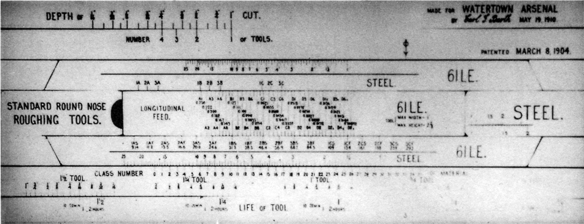 Slide rule created by Carl G. Barth, a coworker of Frederick W. Taylor, for turning work, about 1904